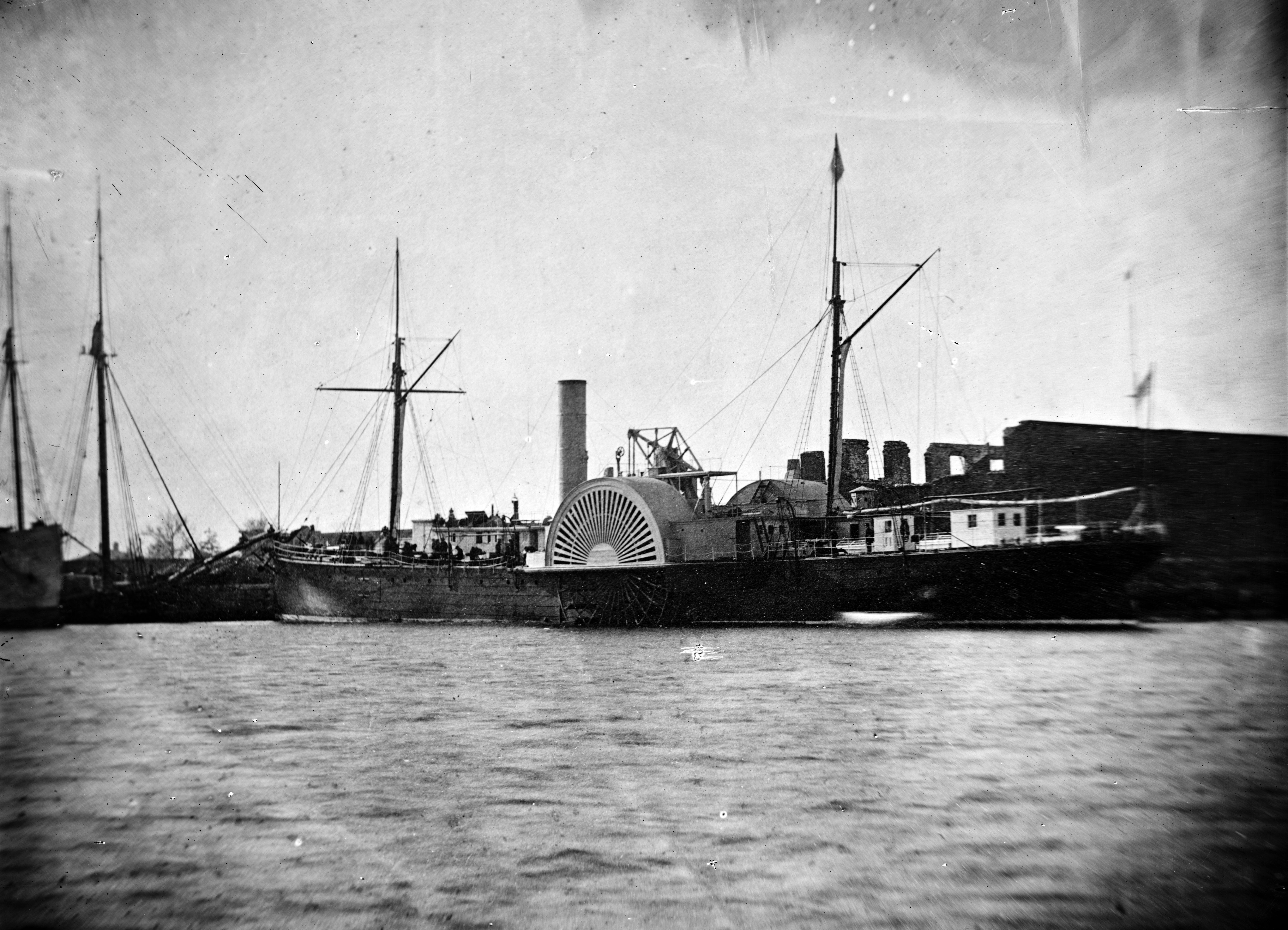 LC-DIG-CWPB-03883: USS Malvern at Hampton Roads, Virginia, December 1864. Courtesy of the Library of Congress.